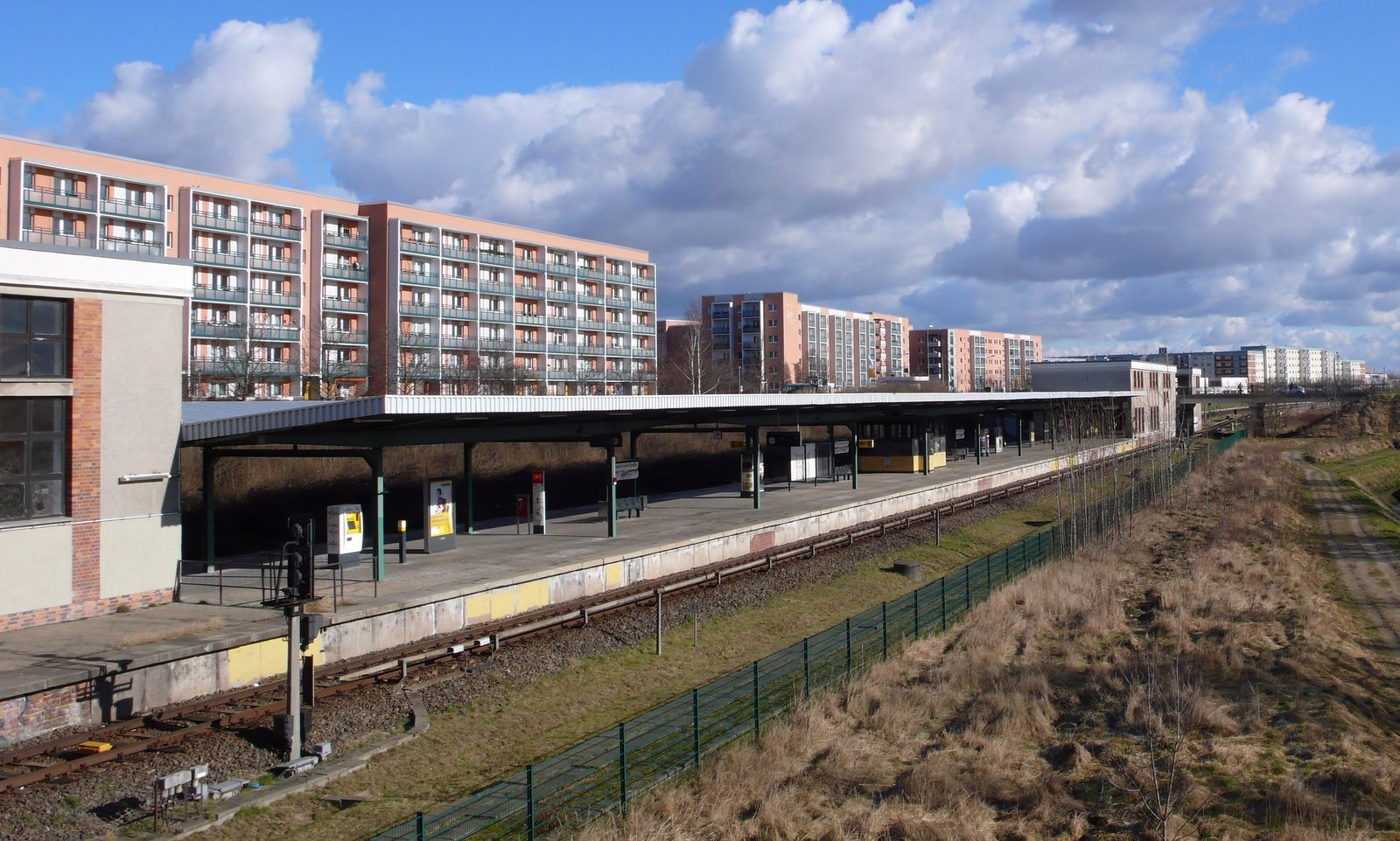 Louis-Lewin-Str U-Bahn station in Berlin, Germany